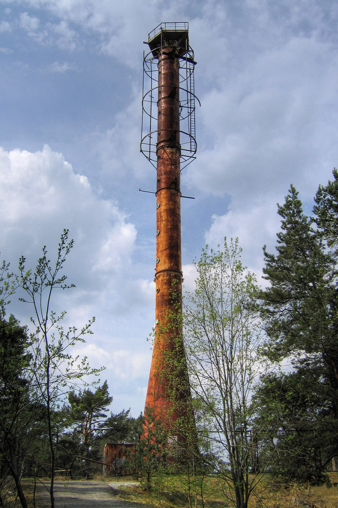 Ihasalu rear daymark